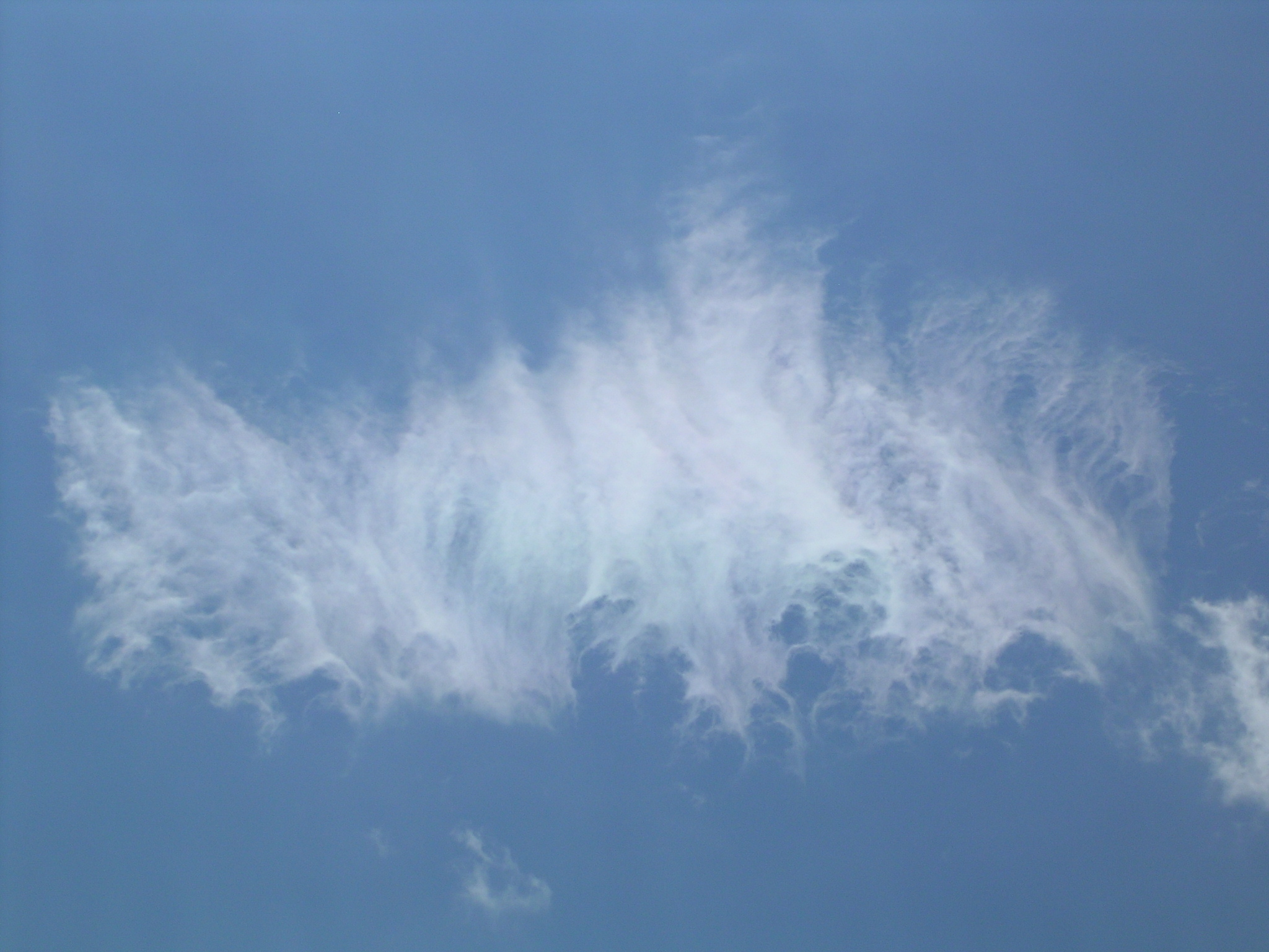 Strange Cirrostratus - How can I describe it?